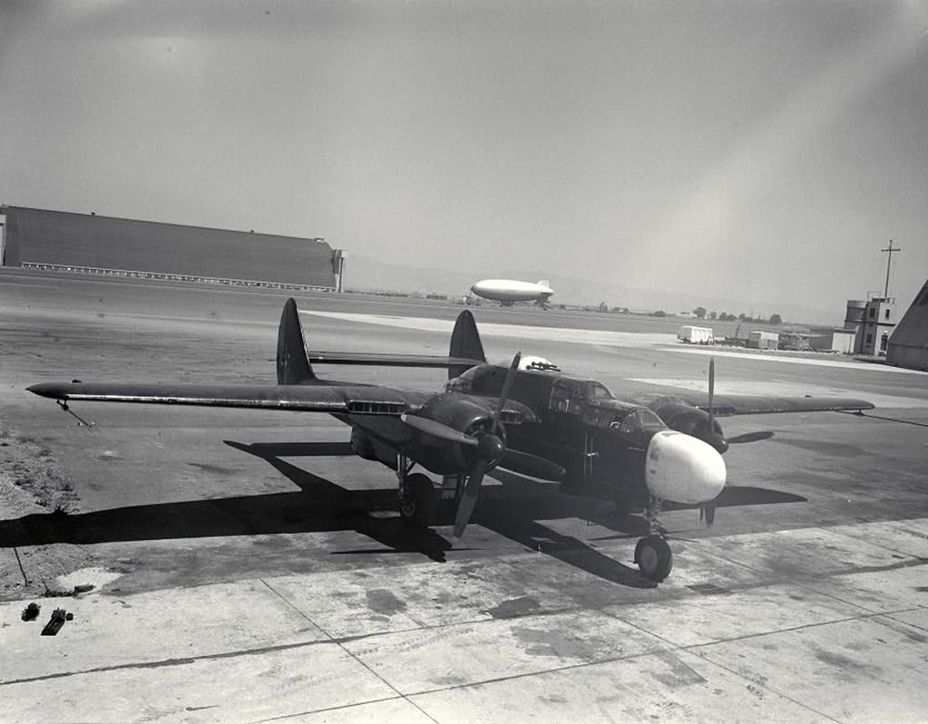 Northrup P-61 NACA Test Aircraft, Moffett Field, California.